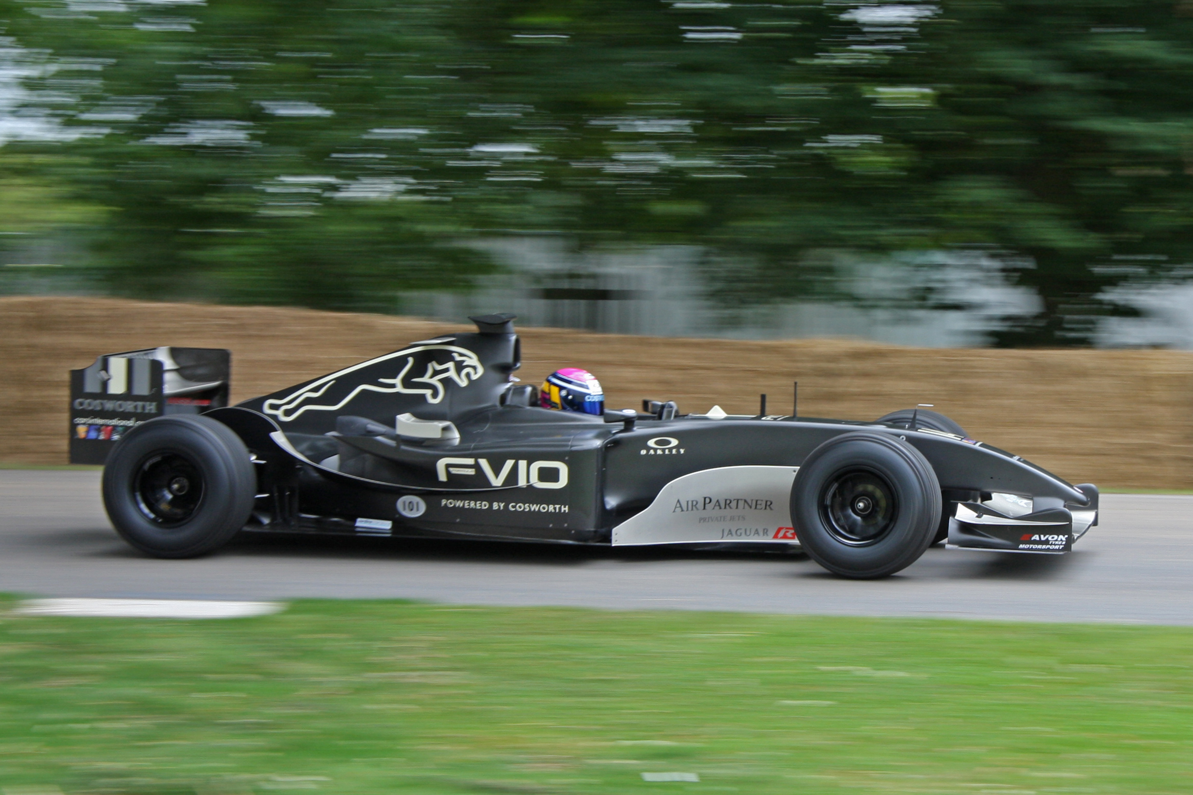 Jaguar-Cosworth R5 on Goodwood Festival Of Speed 2008. Built 2004. 3 litre V10